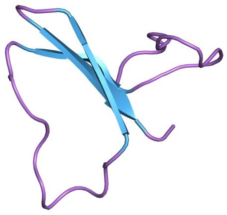 Cartoon representation of the molecular structure of protein registered with 1bds code.